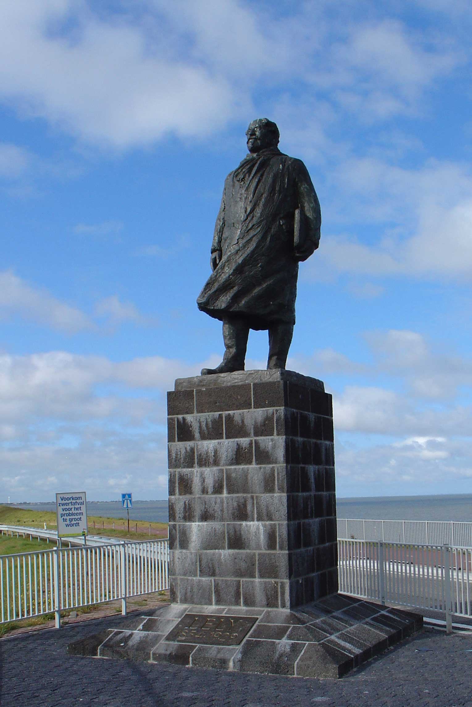 Statue of ir. Cornelis Lely. As minister of Public Works he was responsible for the plans for the reclamation of the Zuiderzee (now Ijsselmeer). The statue currently stands on the Afsluitdijk, near the monument.